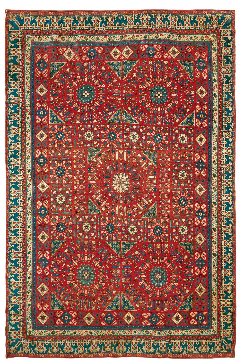 The Ellis/Wher/Zakleski ‘Para Mamluk’ carpet, early 16th century, 141 x 207cm. Romain Zaleski Collection, courtesy Moshe Tabibnia, Milan.